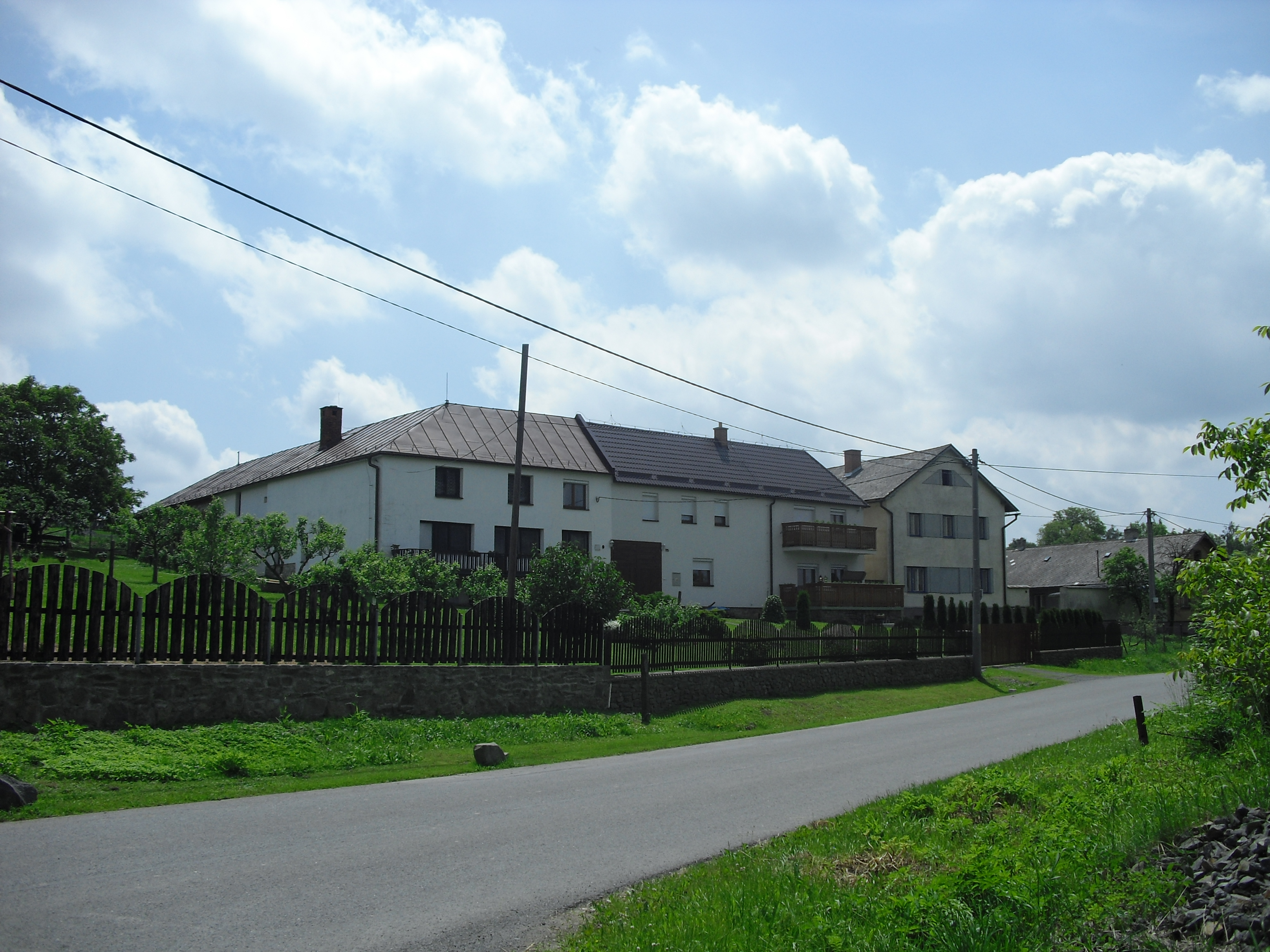 Heřmanice u Oder, Nový Jičín District, Czech Republic.